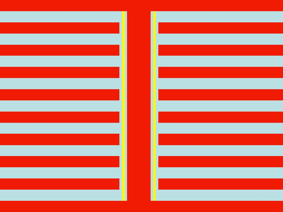 A cross section of the vertical structure used by Toshiba in its BiCS structure and Samsung in its TCAT 3D NAND process.